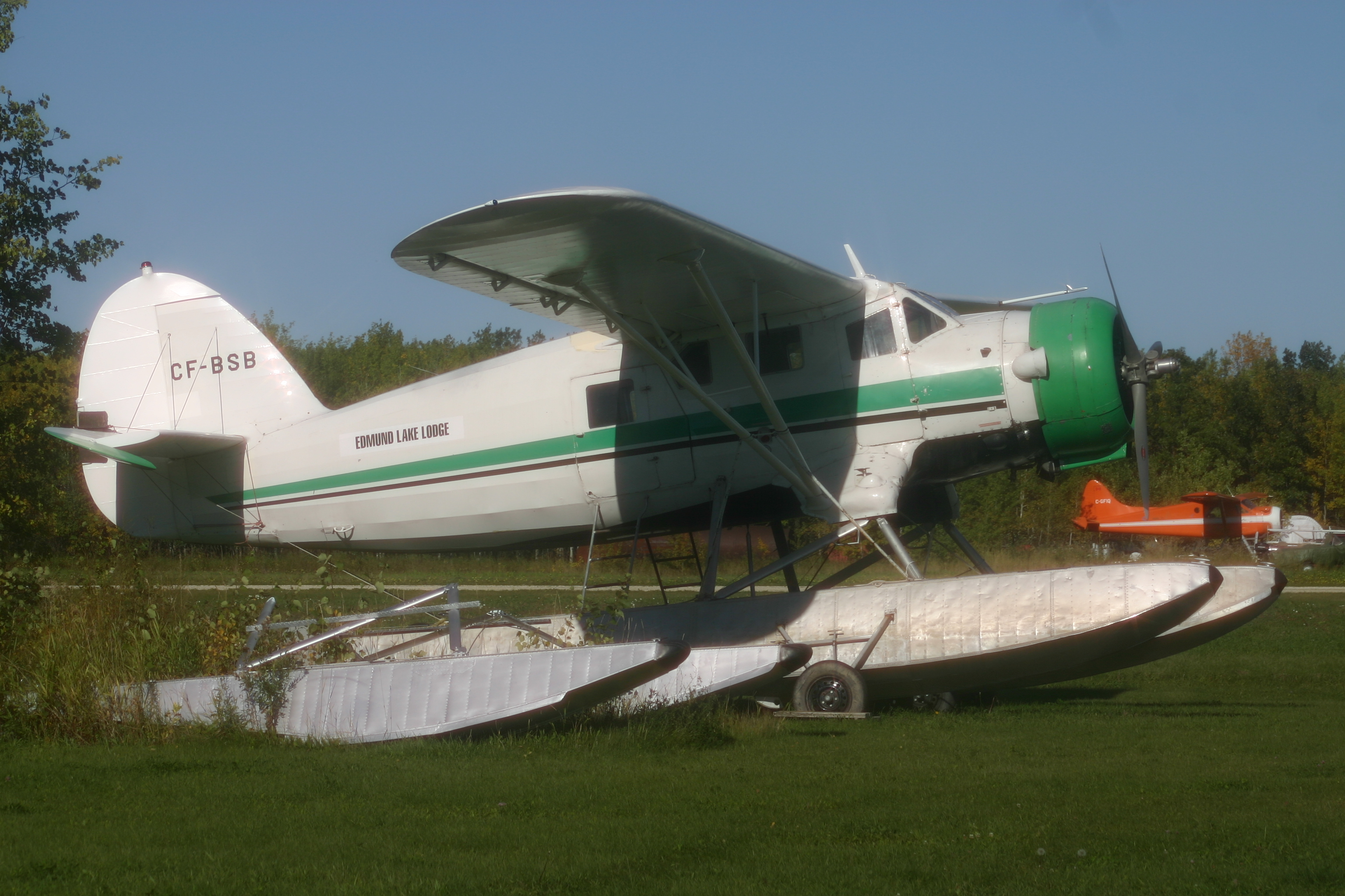 Noorduyn Norseman floatplane in the grass at a Canadian airfield.